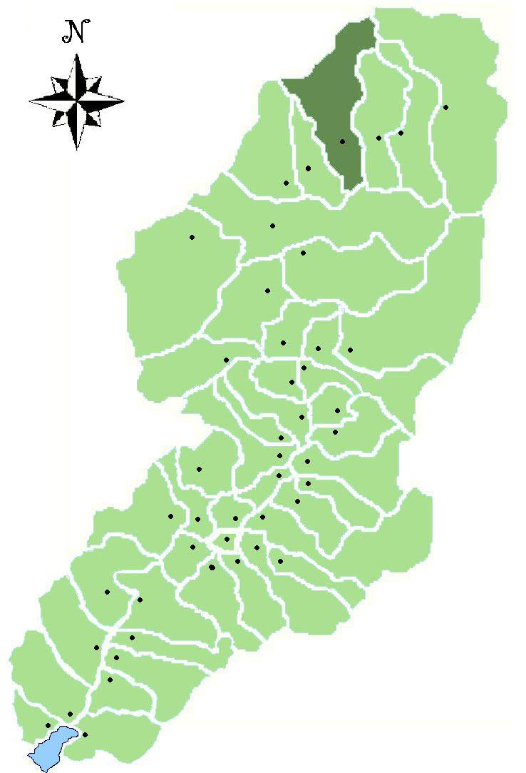 Map of the Comune di Vezza, Valle Camonica